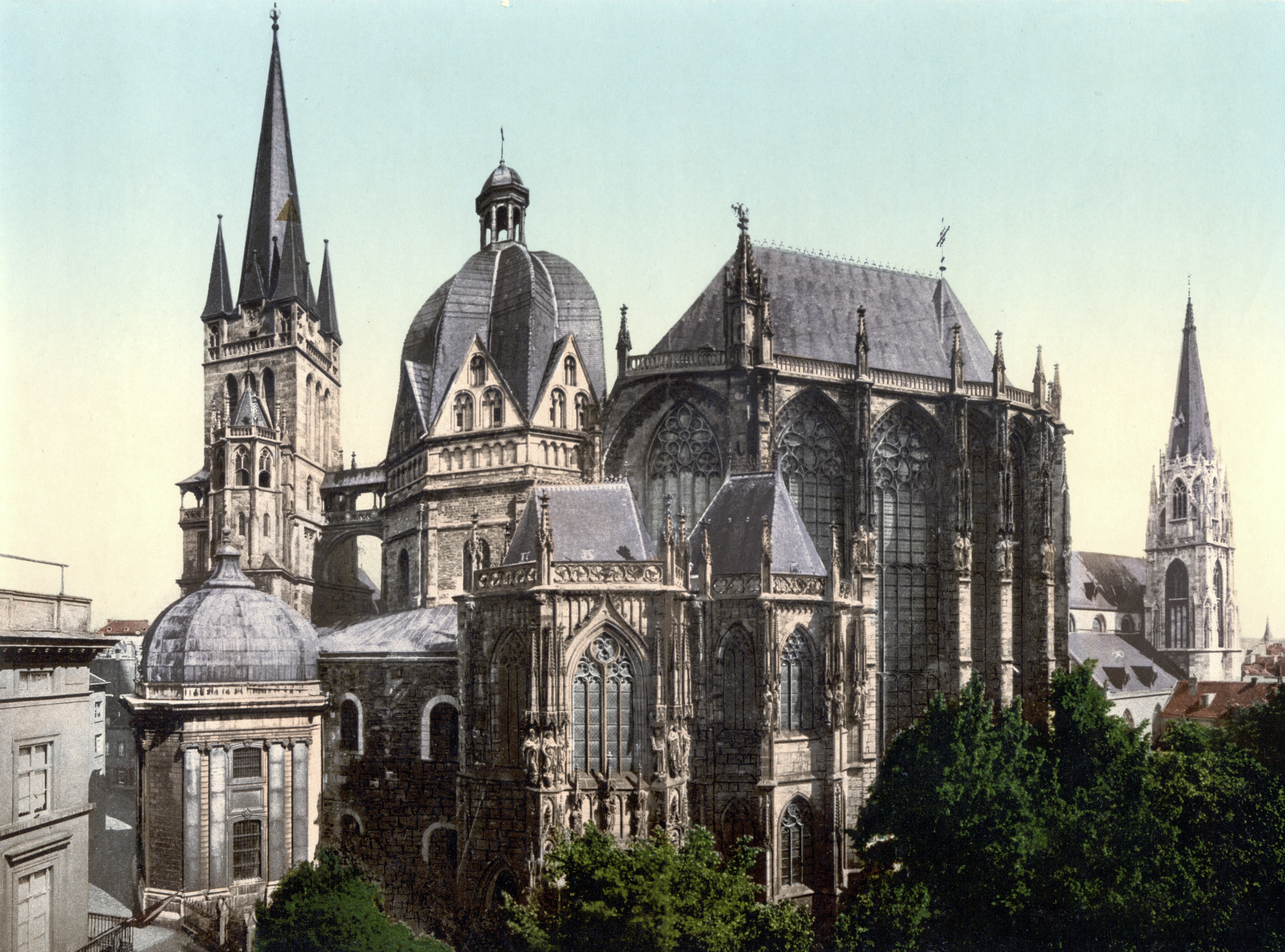 South side of the Aachener of cathedral, around 1900.